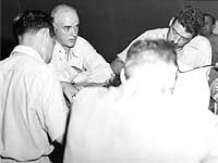 USS Indianapolis' last Commanding Officer, Captain Charles B. McVay III, tells War Correspondents about the sinking of his ship. Photographed on Guam in August 1945, following the rescue of her survivors. Official U.S. Navy Photograph